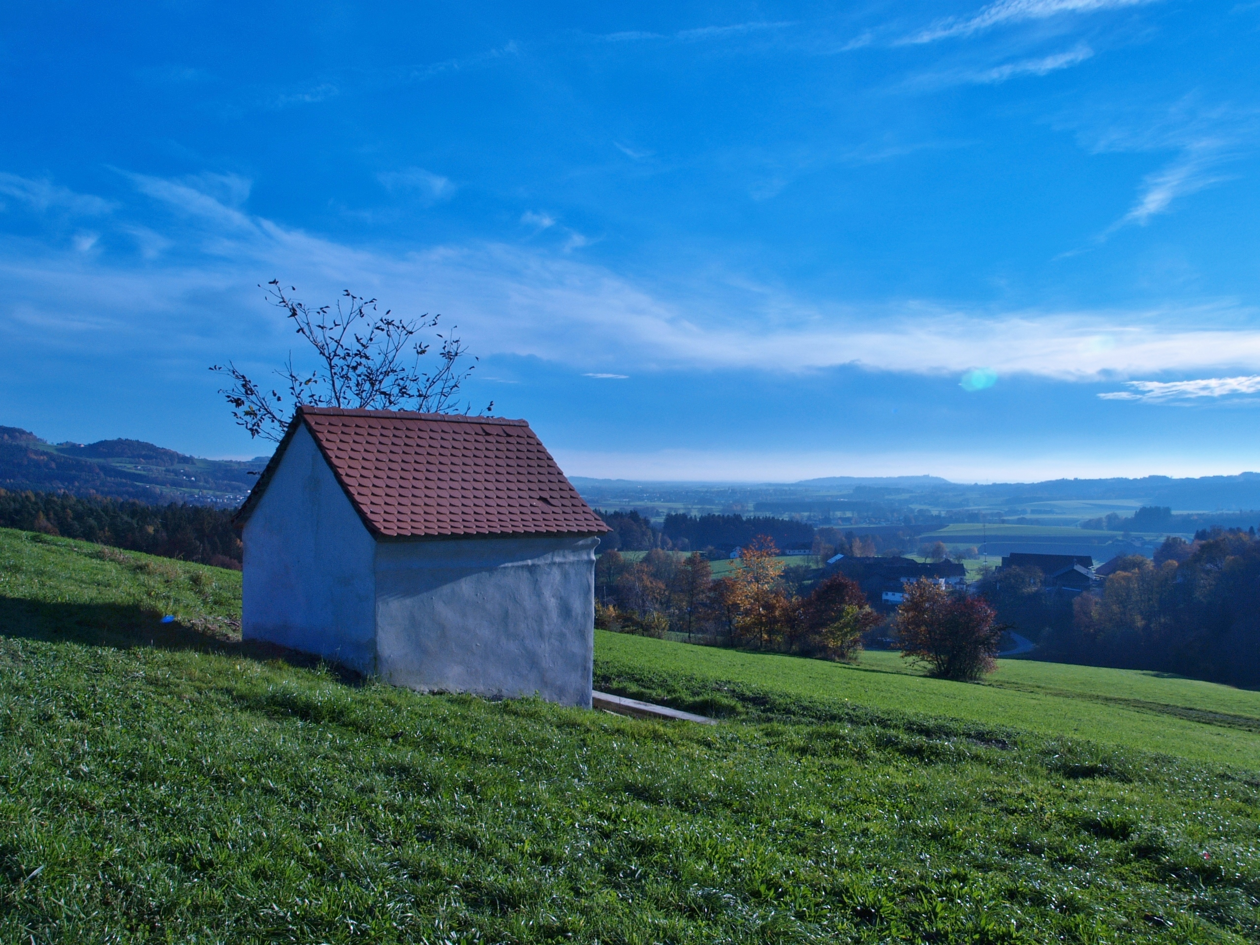 Chapel in the area of Oberwachsenberg south of the village